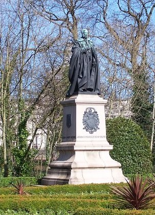 Statue of Third Marquess of Bute, Cardiff Statue of Third Marquess of Bute, Friary Gardens, Cardiff. Sculptor was P. Macgillivray.